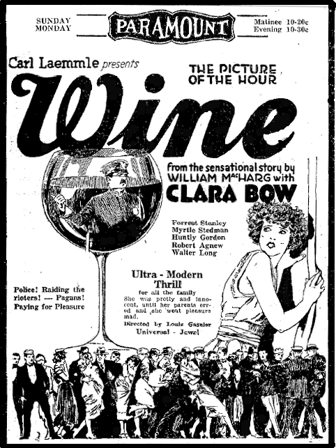 Newspaper advertisement for the American film Wine (1924).